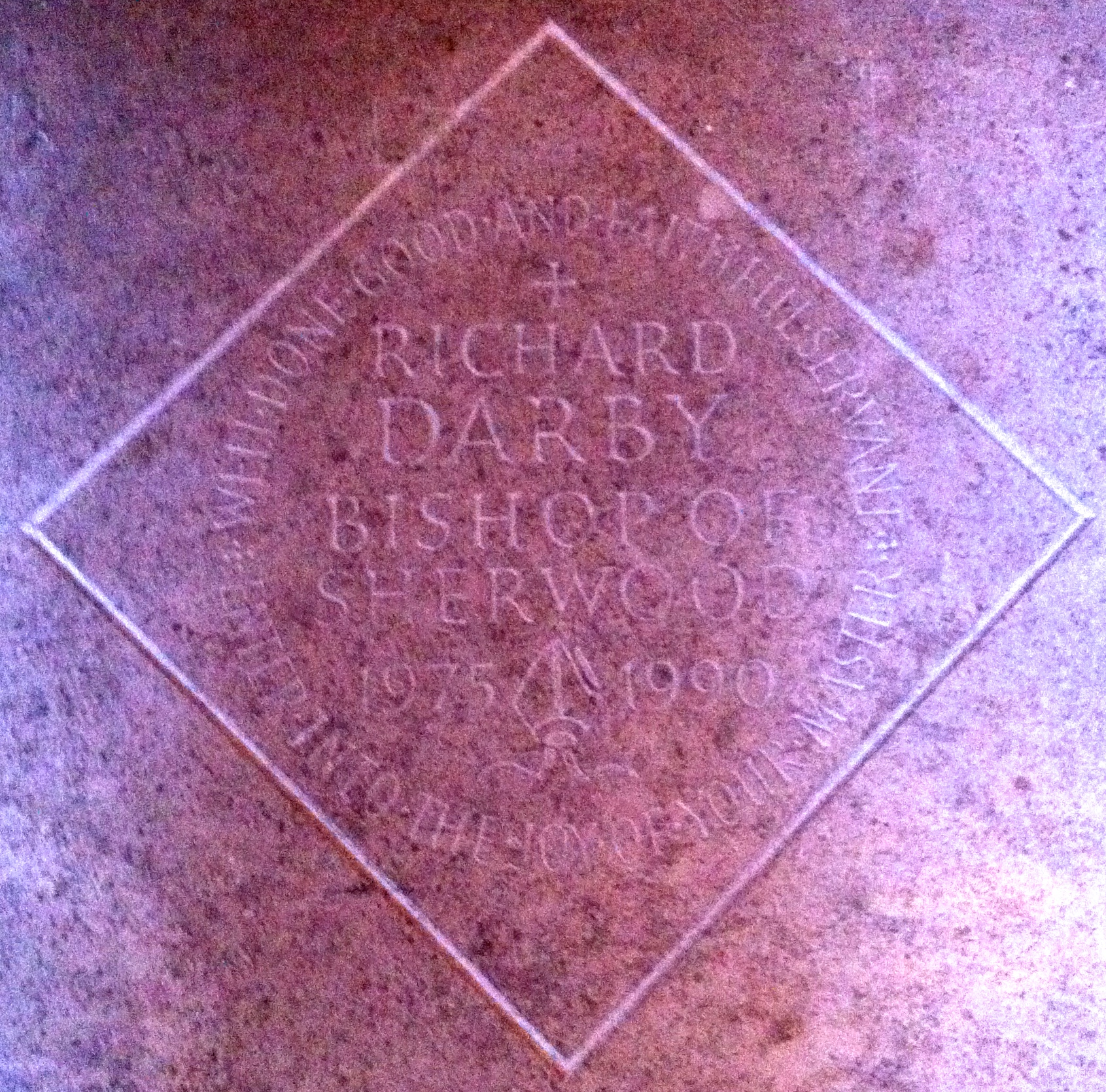 Richard Darby, Bishop of Sherwood 1975 - 1990